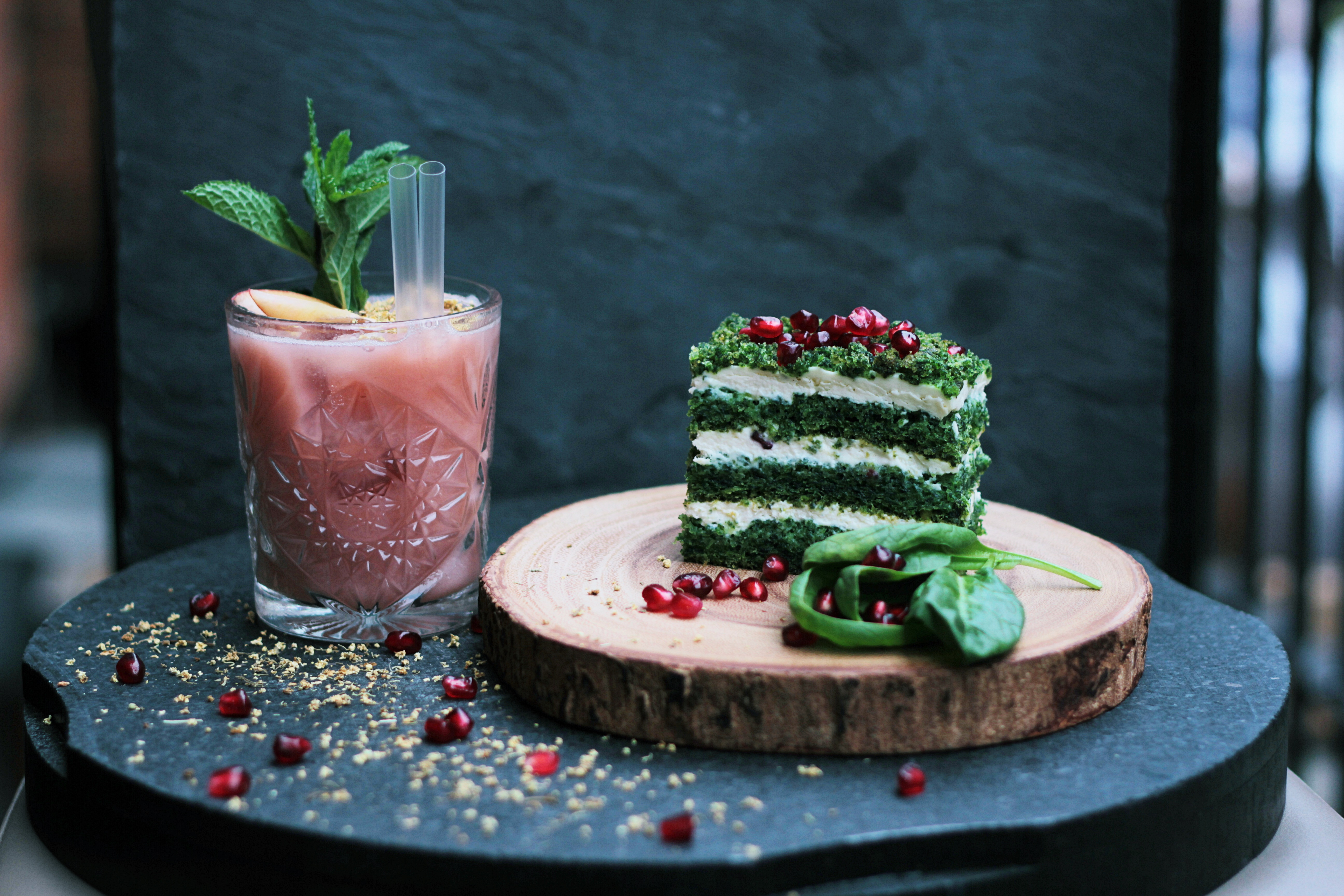 L'Eto, London, United Kingdom